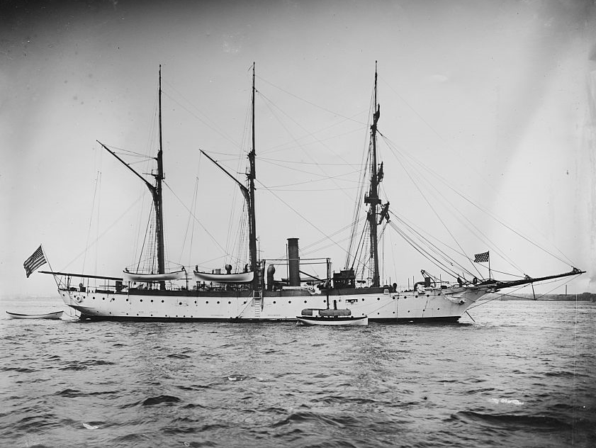 Vicksburg, U.S.N.